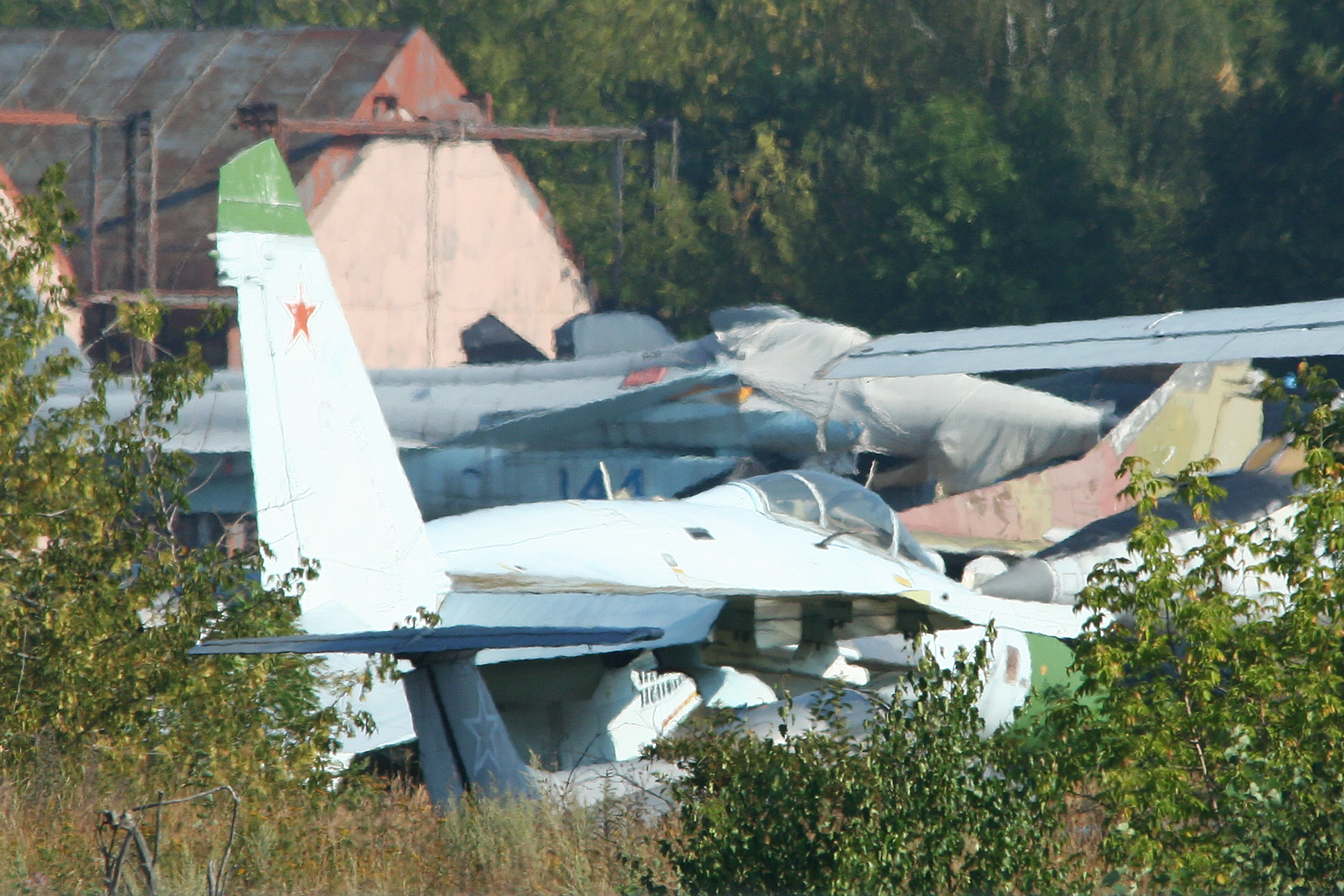 Although this view contains the same Su-27, L-29 and MiG-27 as the previous shot, the background is infinitely more interesting!! Clearly visible is the one-off Mikoyan project 1.44 prototype '144 blue'. The NATO codename for this technology demonstrator was 'Flatpack'! The development was hit by funding issues and few flights were made. Just visible behind the MiG-1.44 are the fins and wingtips of MiG-29K '312 blue' c/n 27579. This shot was taken (at a distance) from the static display area of the Russian Air Force 100th Anniversary Airshow. Zhukovsky, Russia. 12-8-2012